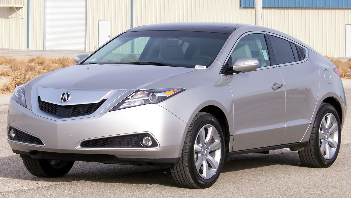 2010 Acura ZDX photographed in USA.